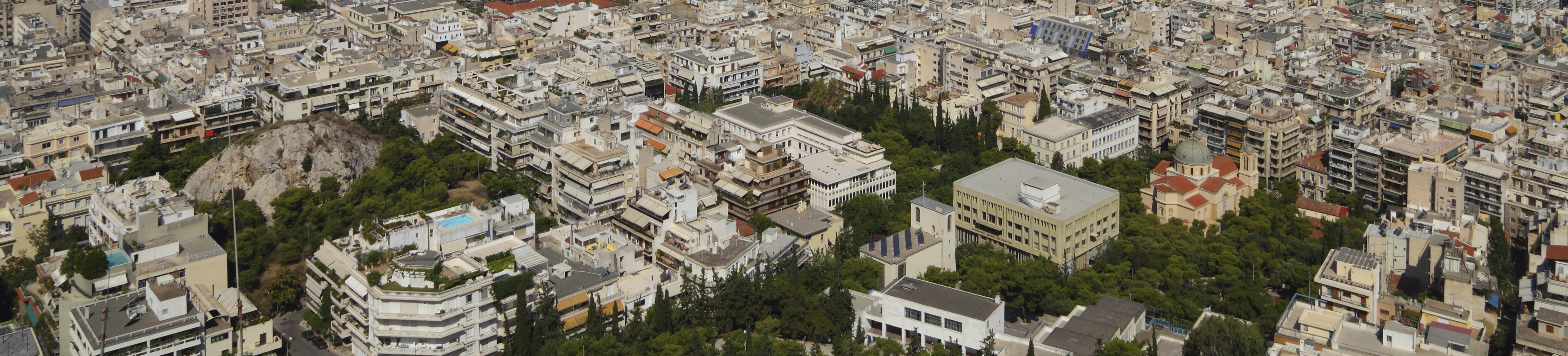 Pefkakia quarter, Athens. View from Lykavittos (Likavittos, Lycabettus) Hill.